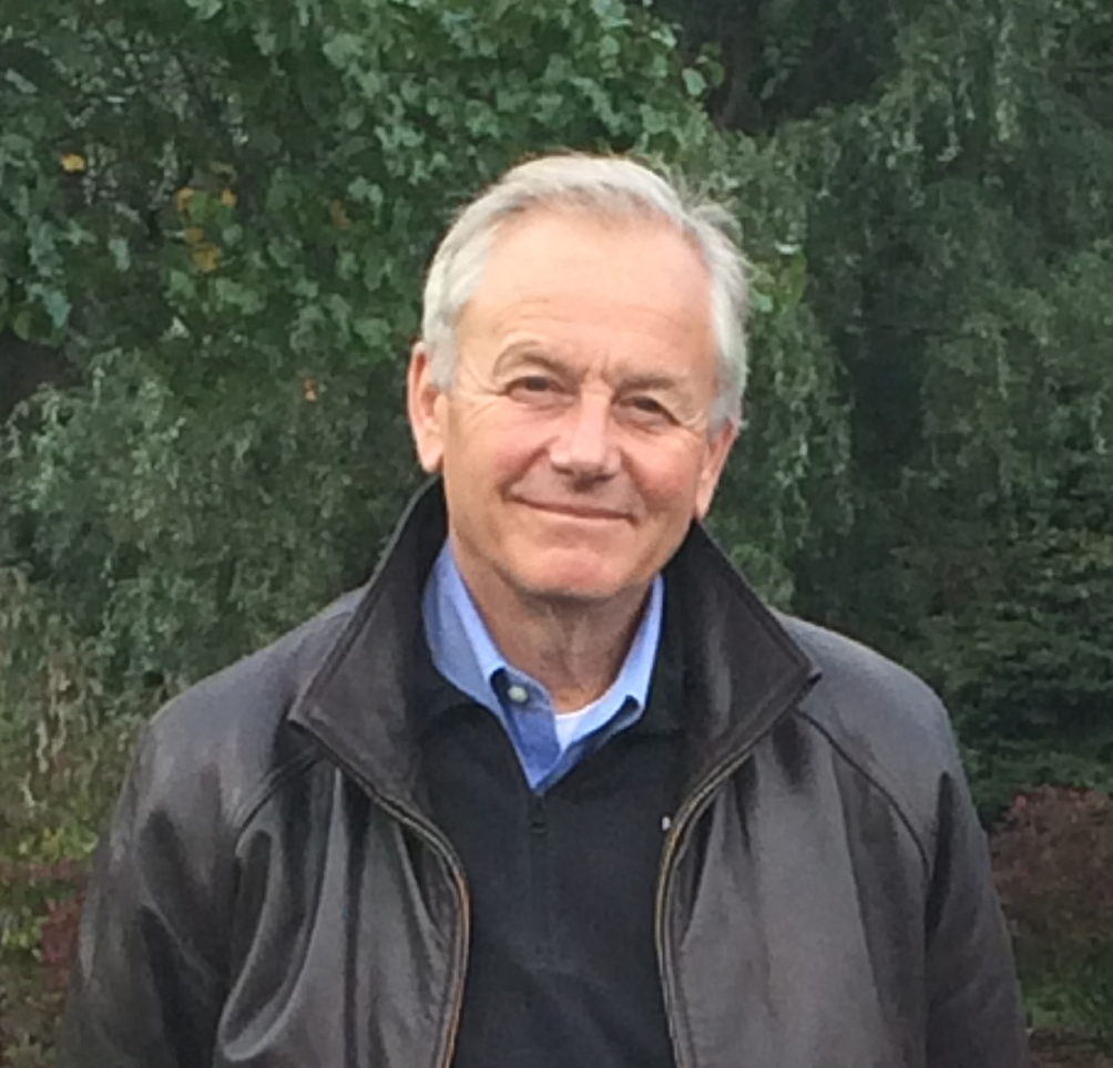 Matt Patrick. 2015.